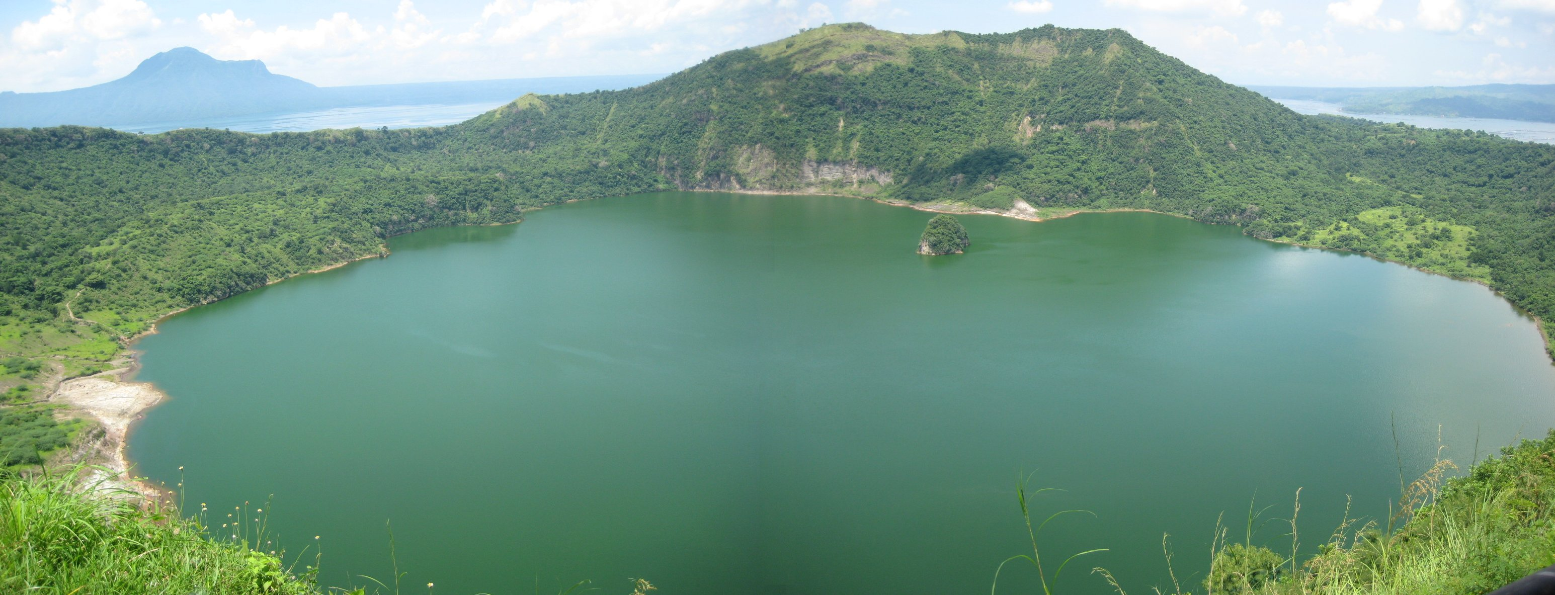 Taal Lake is a freshwater lake in the province of Batangas, on the island of Luzon, Philippines. The lake is situated within a caldera formed by very large eruptions between 500,000 and 100,000 years ago. The active Taal Volcano, which is the one responsible for the lake's sulfuric content, lies on an island in the center of the lake, called Volcano Island. In addition, there is a crater lake on Volcano Island, which is in Lake Taal, which in turn is on Luzon (an island). That crater lake is the world's largest lake on an island in a lake on an island. The small island on the far side of the lake is called Vulcan Point.